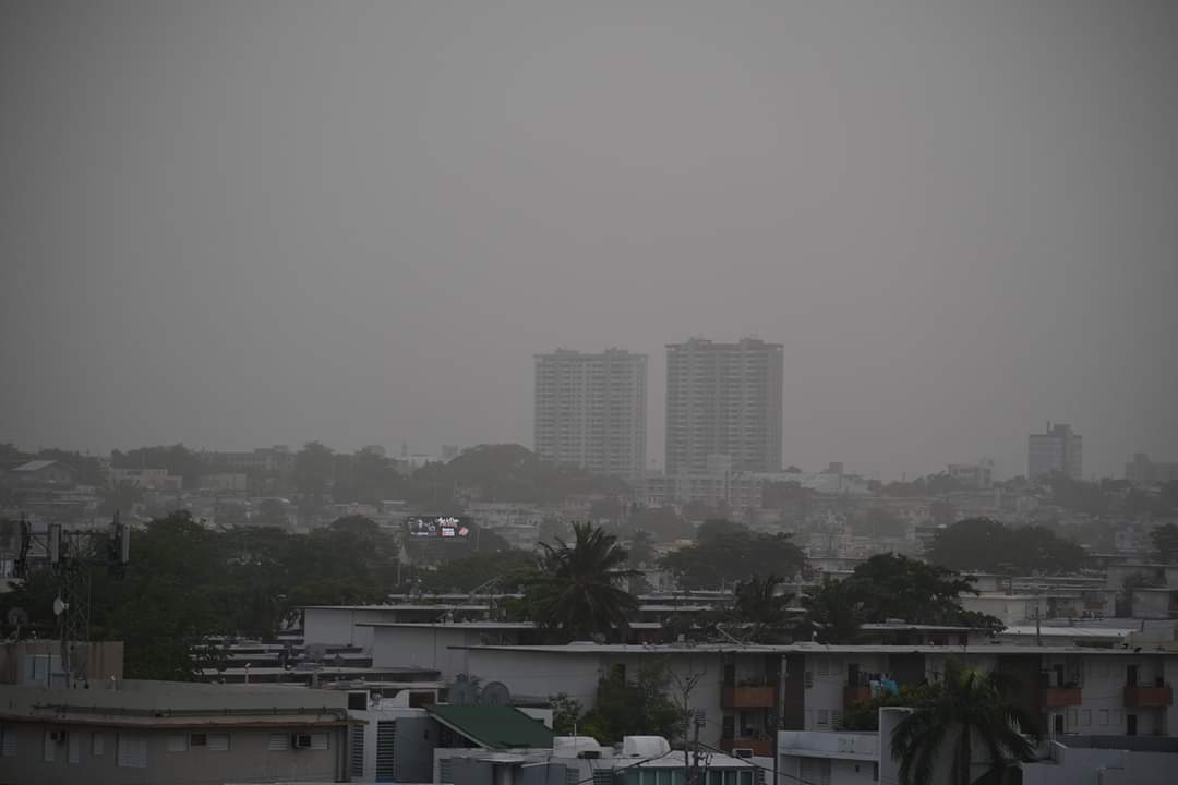 View of the Sahara dust over Puerto Rico during the weekend of June 21st 2020. The Sahara dust comes from Sahara dessert through the Atlantic Ocean. The island was impacted by it as never before. The dust covered everything, causing visibility problems and health problems like short of breath, eye dryness, and allergies.